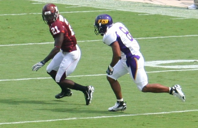 Virginia Tech Hokies cornerback, Rashad Carmichael, in 2007